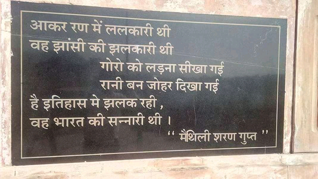 Maithili Saran Gupta's Poet About Jhalkari Bai